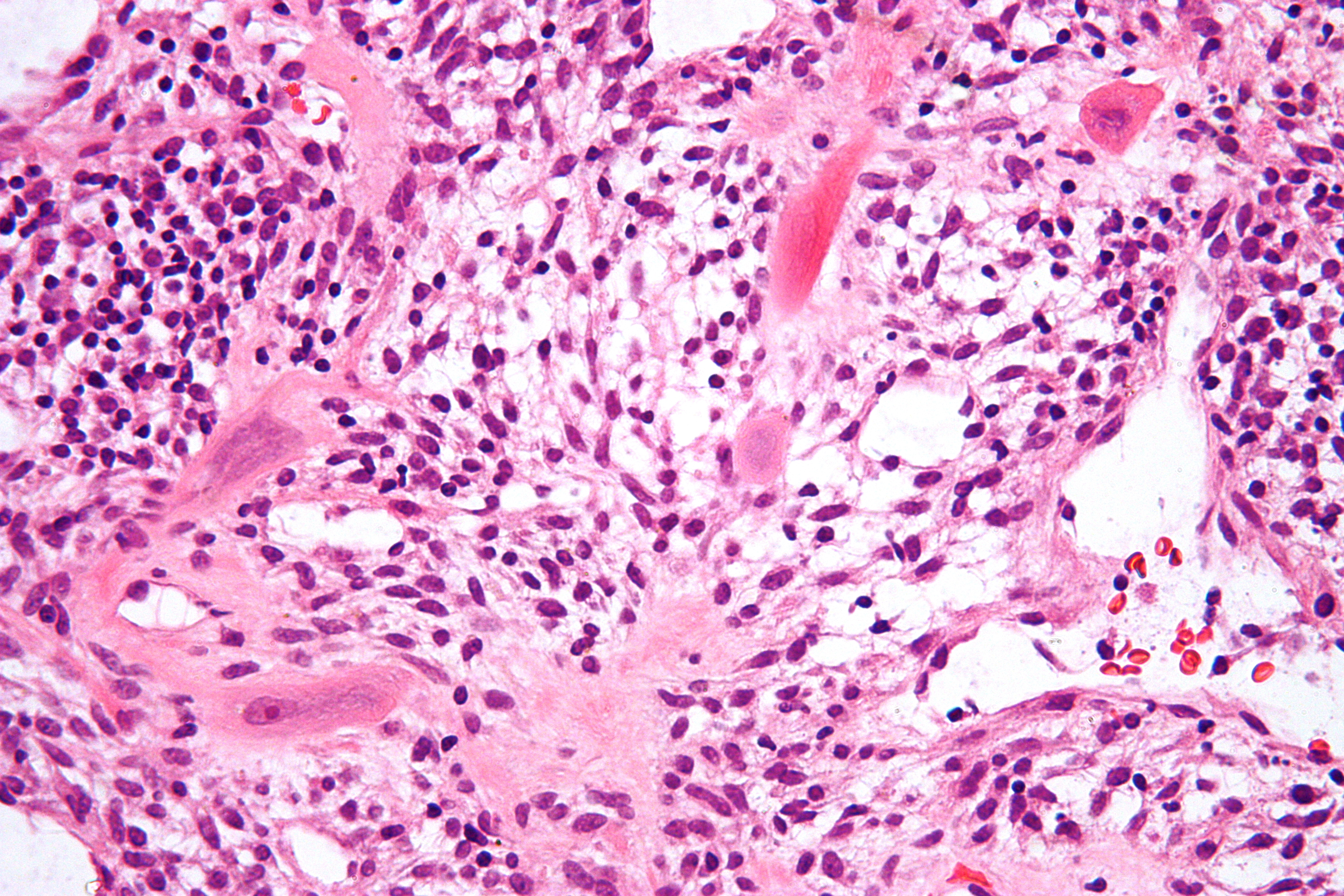 High magnification micrograph of intermediate trophoblast. H&E stain. Related images Intermed. mag. Intermed. mag. High mag. High mag. (LMWK)